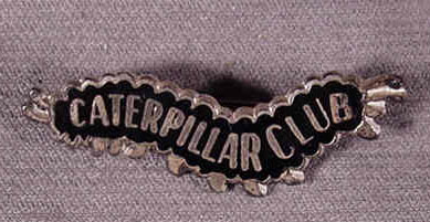 Photo taken for ebay auction. Photographer releases all rights. Photographer is Bill at eicher-w-k(at) Lou Sander 15:59, 26 July 2006 (UTC)